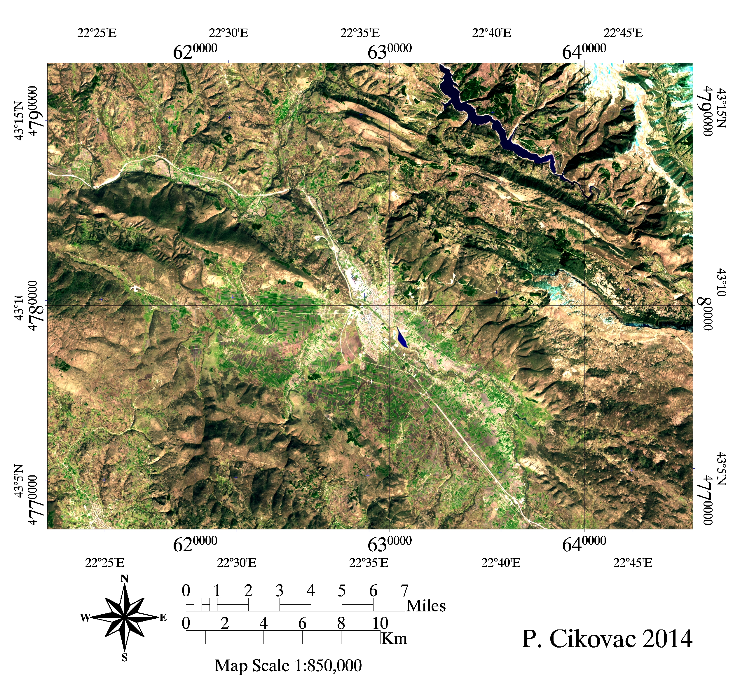 South east Serbia around the Pirot basin. Stara planina mountains um to 2169m to the North